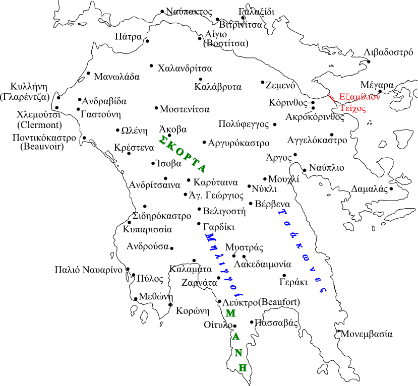 Peloponnese in the Middle Ages